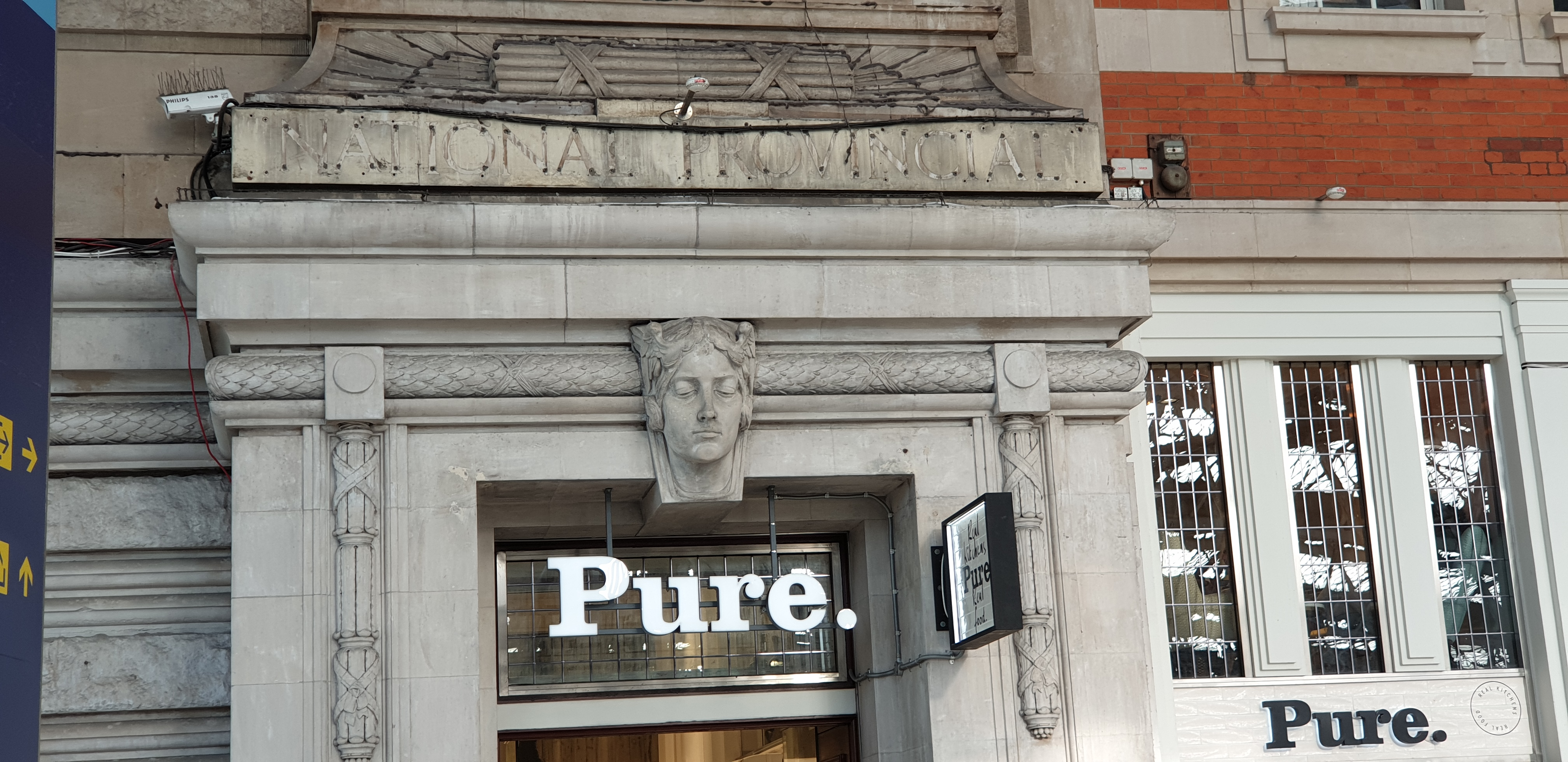 Evidence of the location of a long defunct beach of the National Provincial Bank located in Waterloo train station.